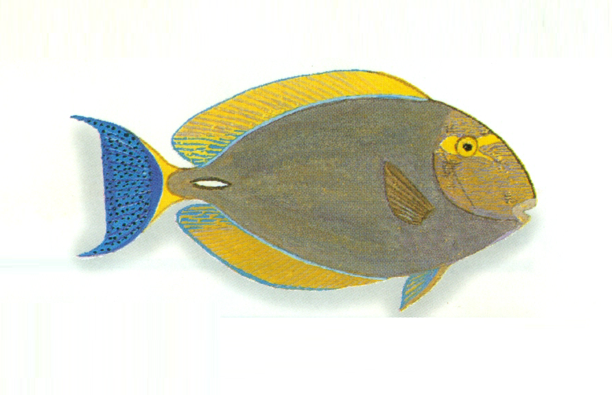 Acanthurus_dussumieri